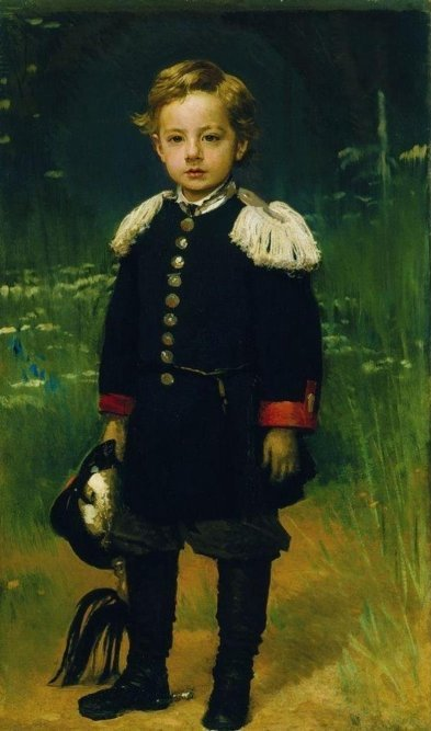 Portraits of Sergei Kramskoi by Ivan Kramskoi. 1883